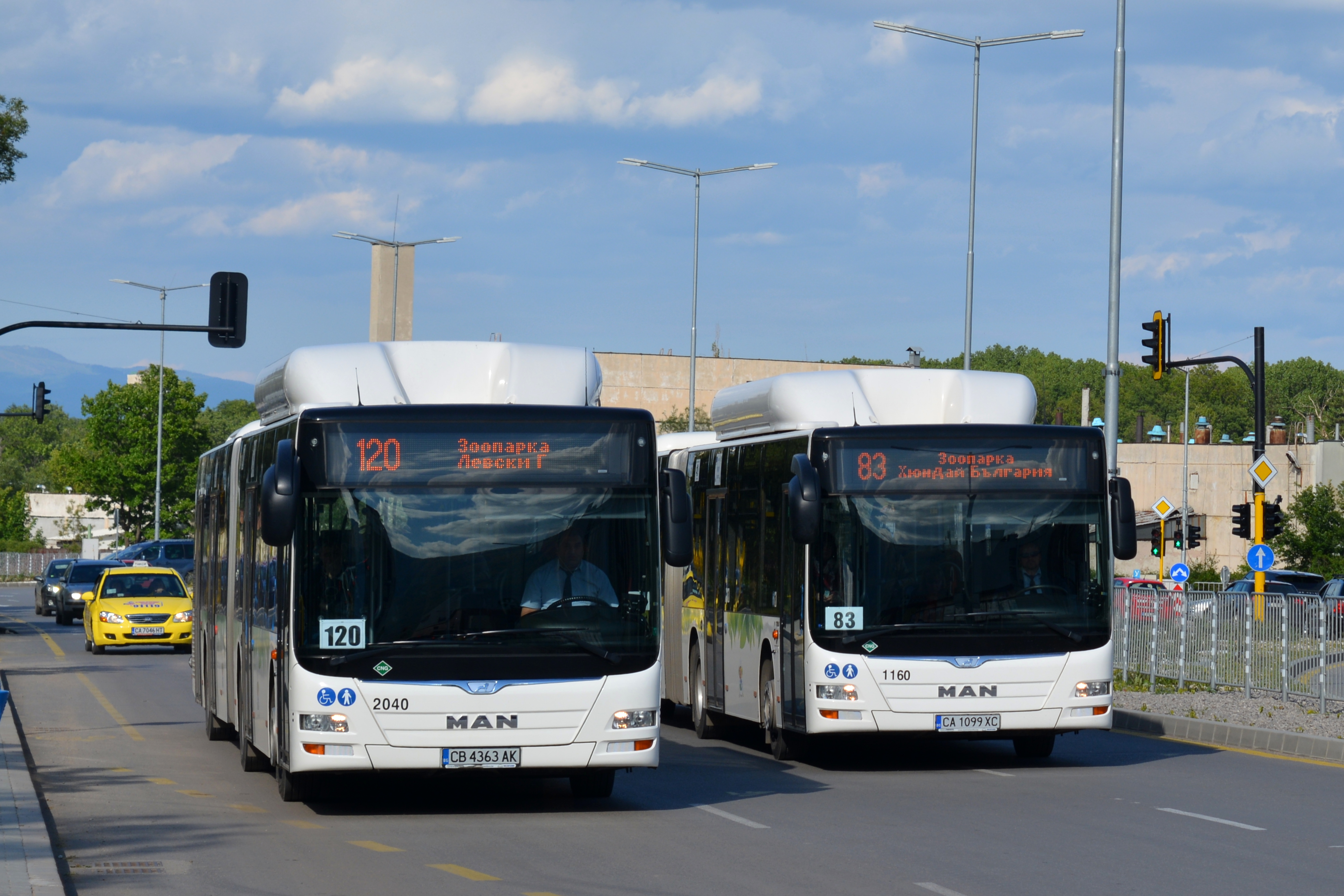 Man Lion's city buses in Sofia on lines 83 and 120